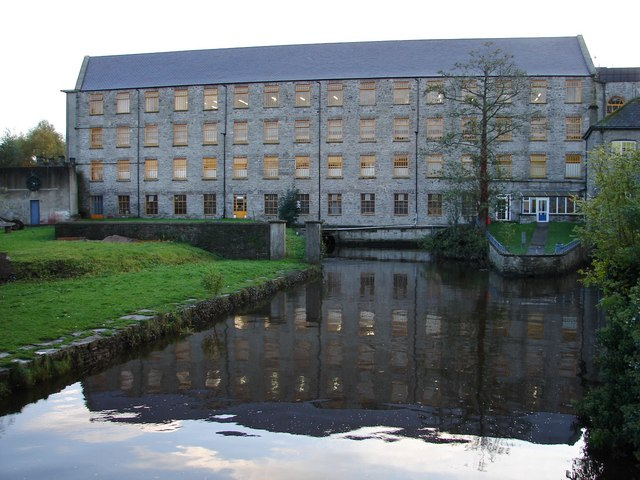 The Mill, Celbridge Part used as a Community Centre.